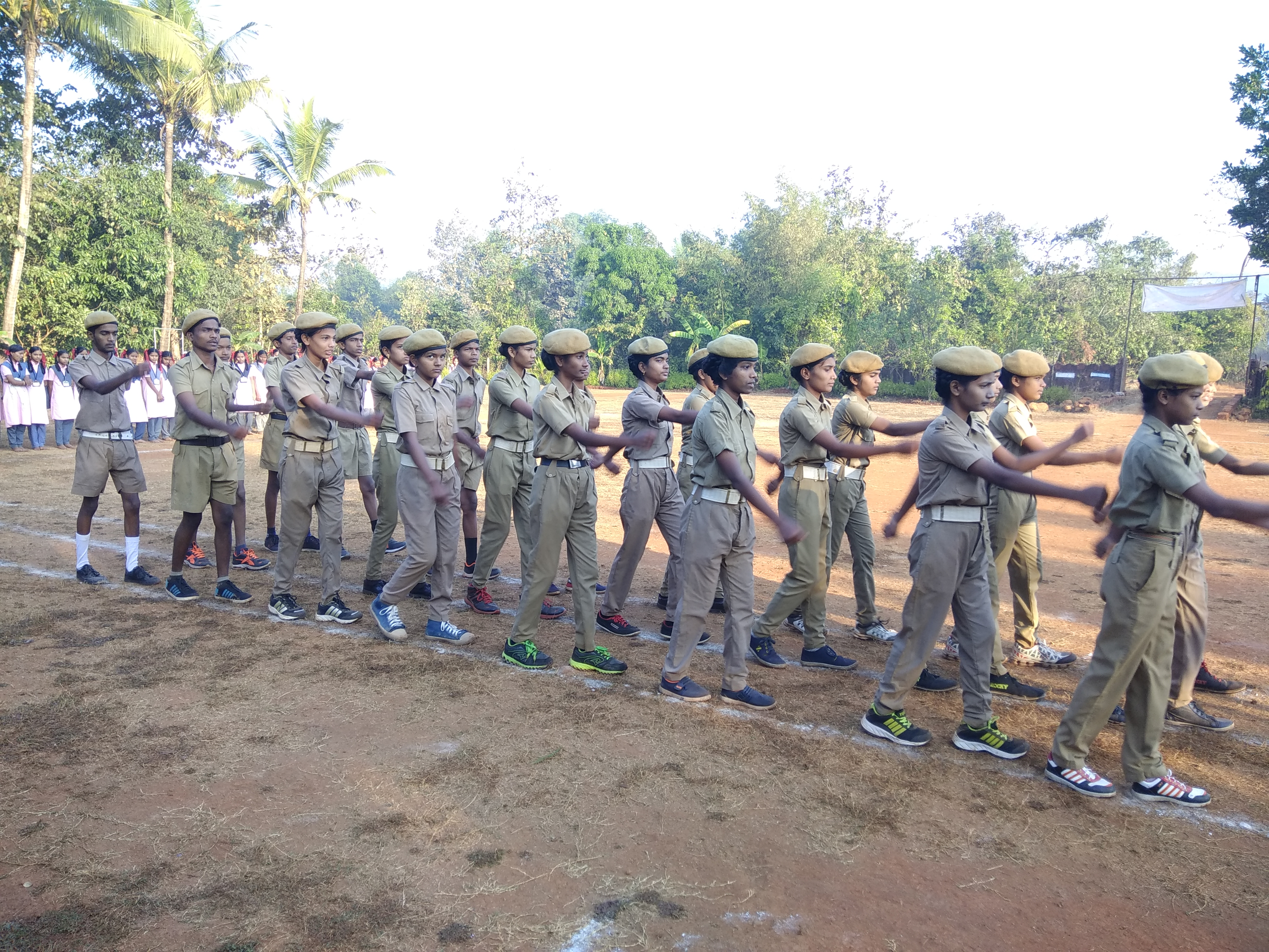 Republic Day Parade in Village School